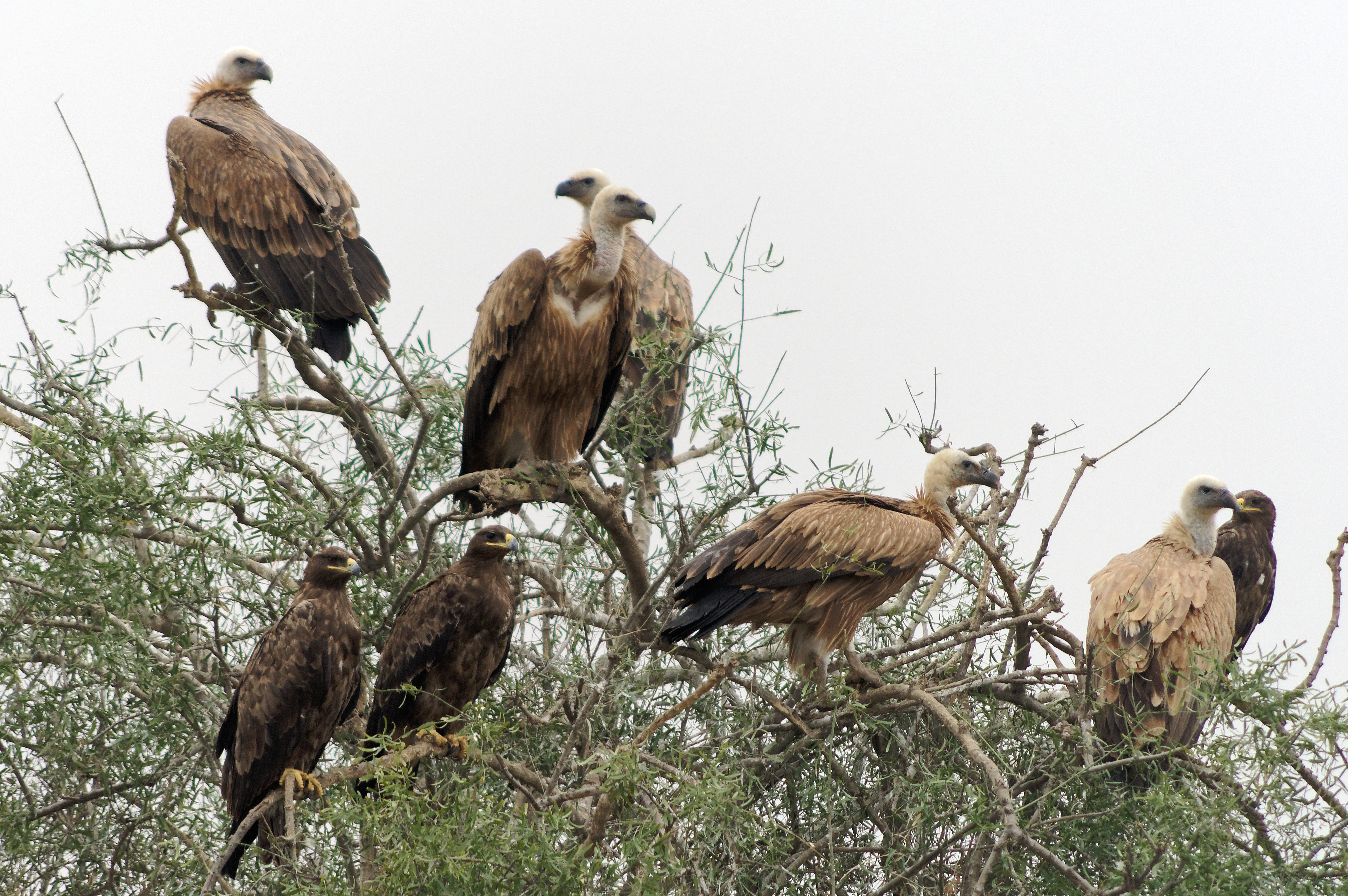 Griffon vultures (Gyps fulvus) and steppe eagles (Aquila nipalensis) at carcass dumping site and raptors birds' reserve, Jor Beed, Bikaner